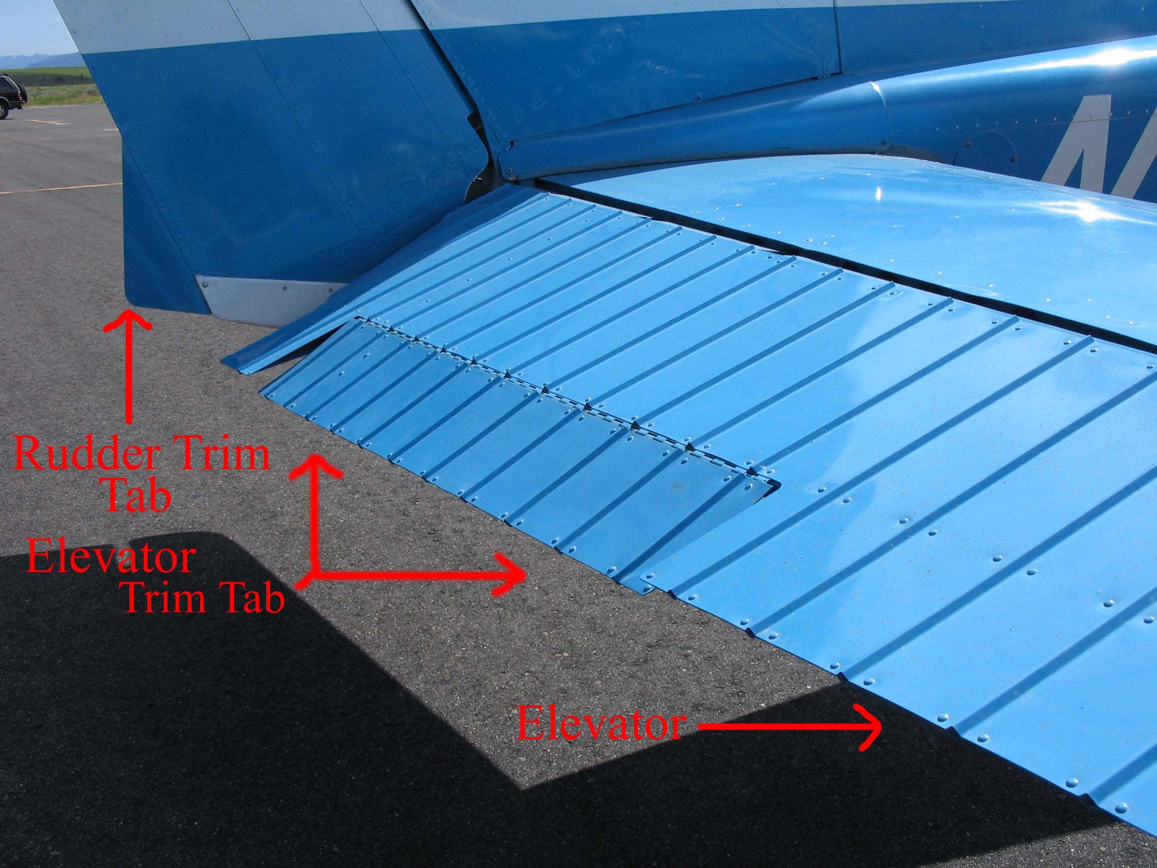 A labeled elevator, elevator trim tab, and Rudder trim tab on a Cessna 172